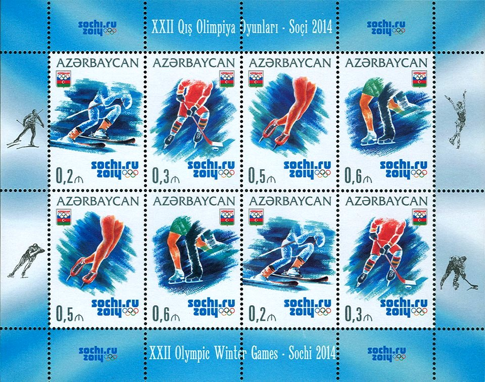 XXII Olympic Winter Games. Sochi - 2014. N 1131 - 20 qapik. Alpine skiing N 1132 - 30 qapik. Ice hockey N 1133 - 50 qapik. Skating N 1134 - 60 qapik. Figure skating